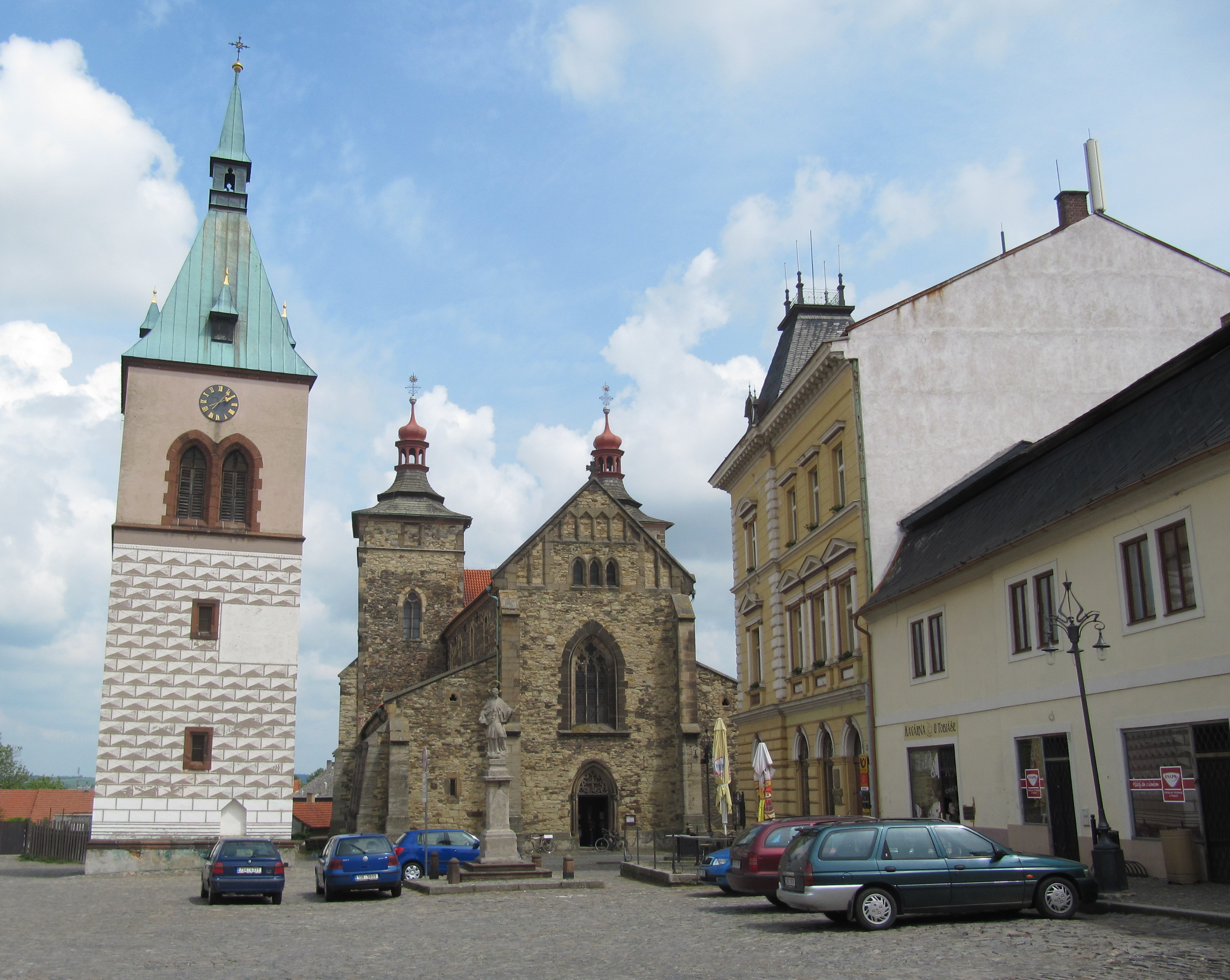 Kouřim, Kolín District, Czech Republic. Platz Mírové náměstí.